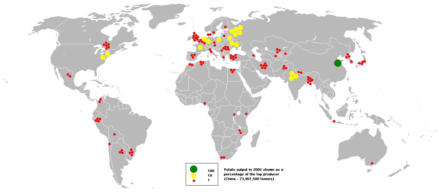 This bubble map shows the global distribution of potato output in 2005 as a percentage of the top producer (China - 73,461,500 tonnes). This map is consistent with incomplete set of data too as long as the top producer is known. It resolves the accessibility issues faced by colour-coded maps that may not be properly rendered in old computer screens. Data was extracted on 14th June 2007 from Based on Image:BlankMap-World.png